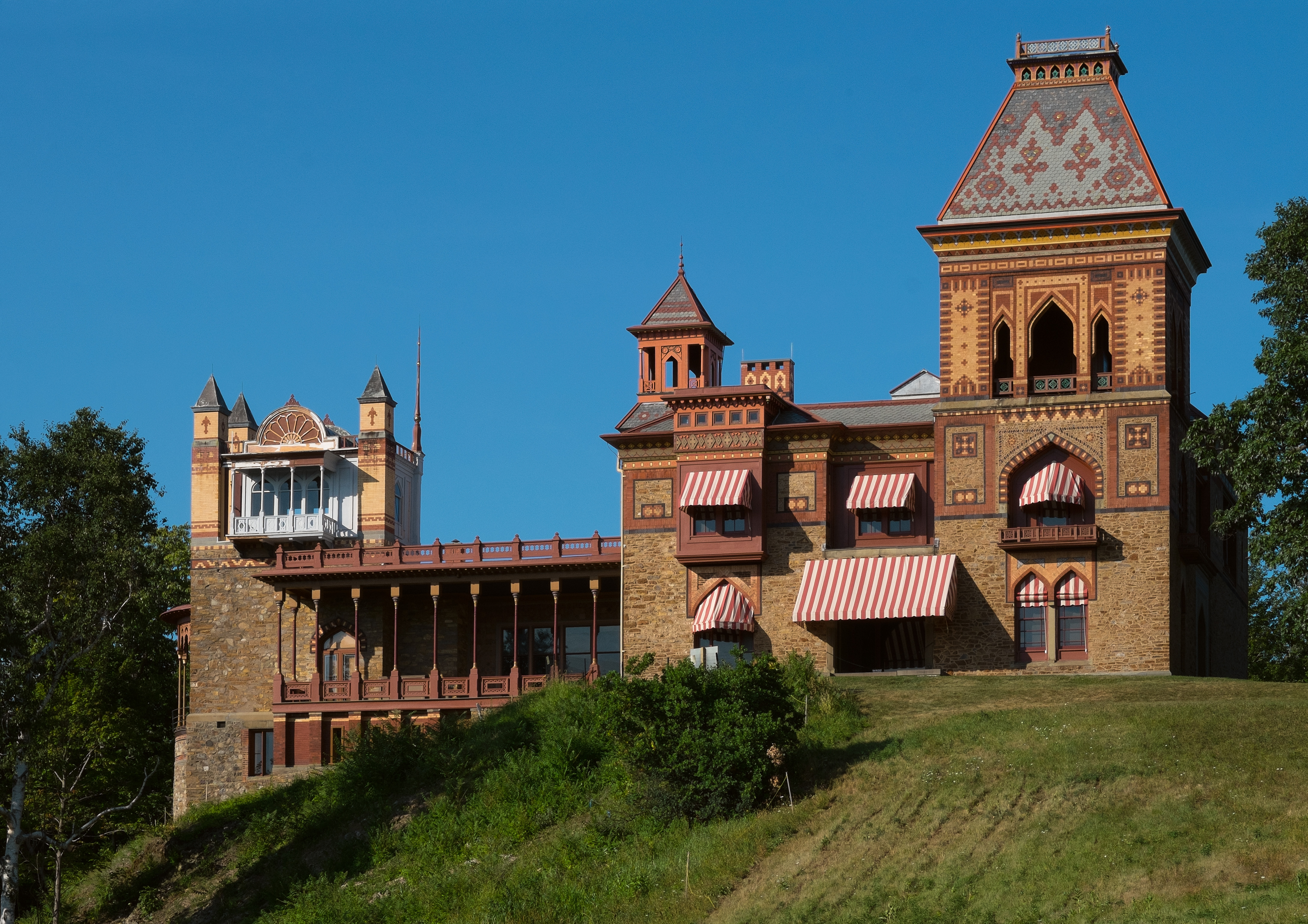 Olana, home of American landscape artist Frederic Edwin Church, as seen in August, 2015.